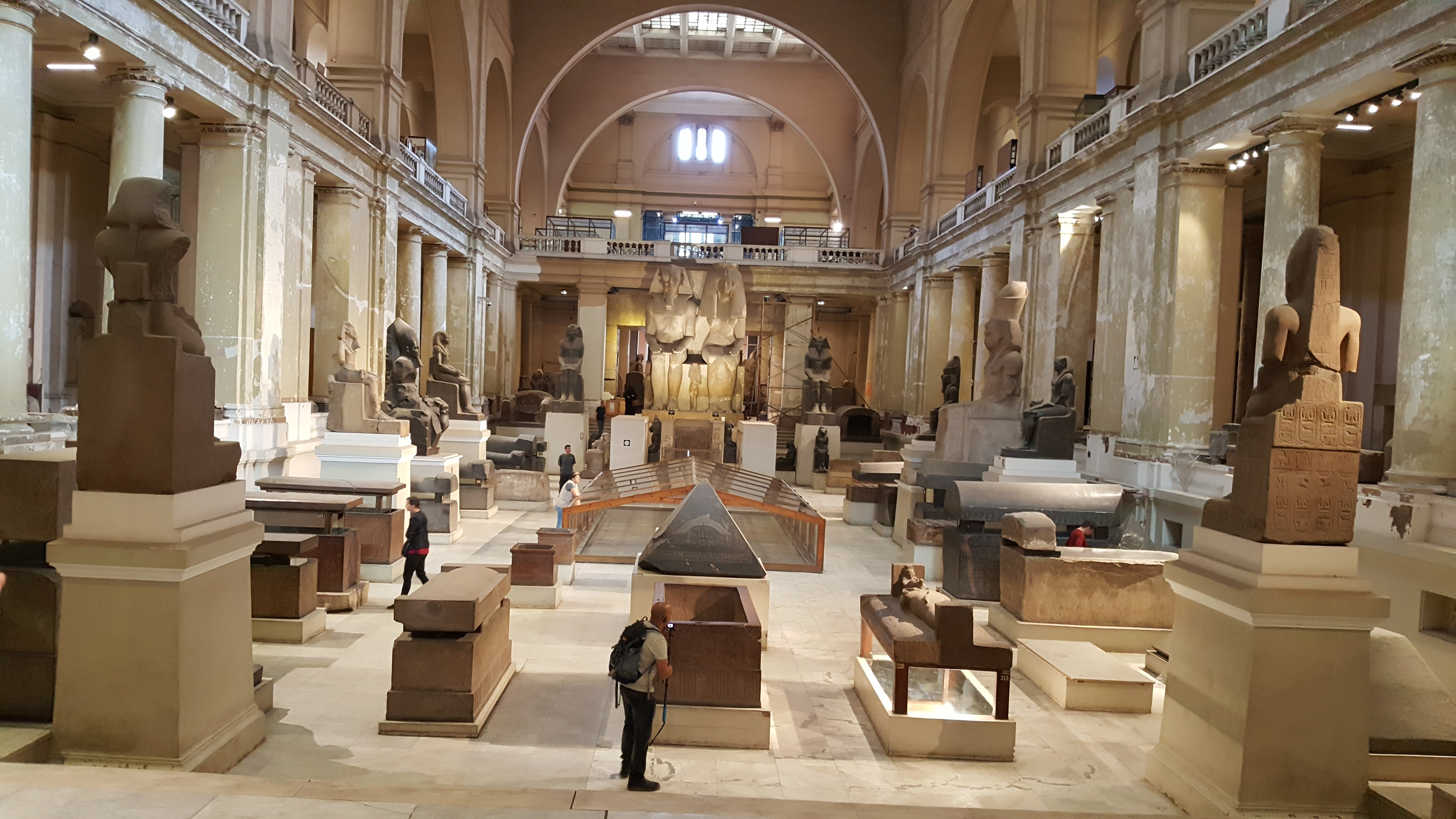 Egyptian Museum (Cairo)